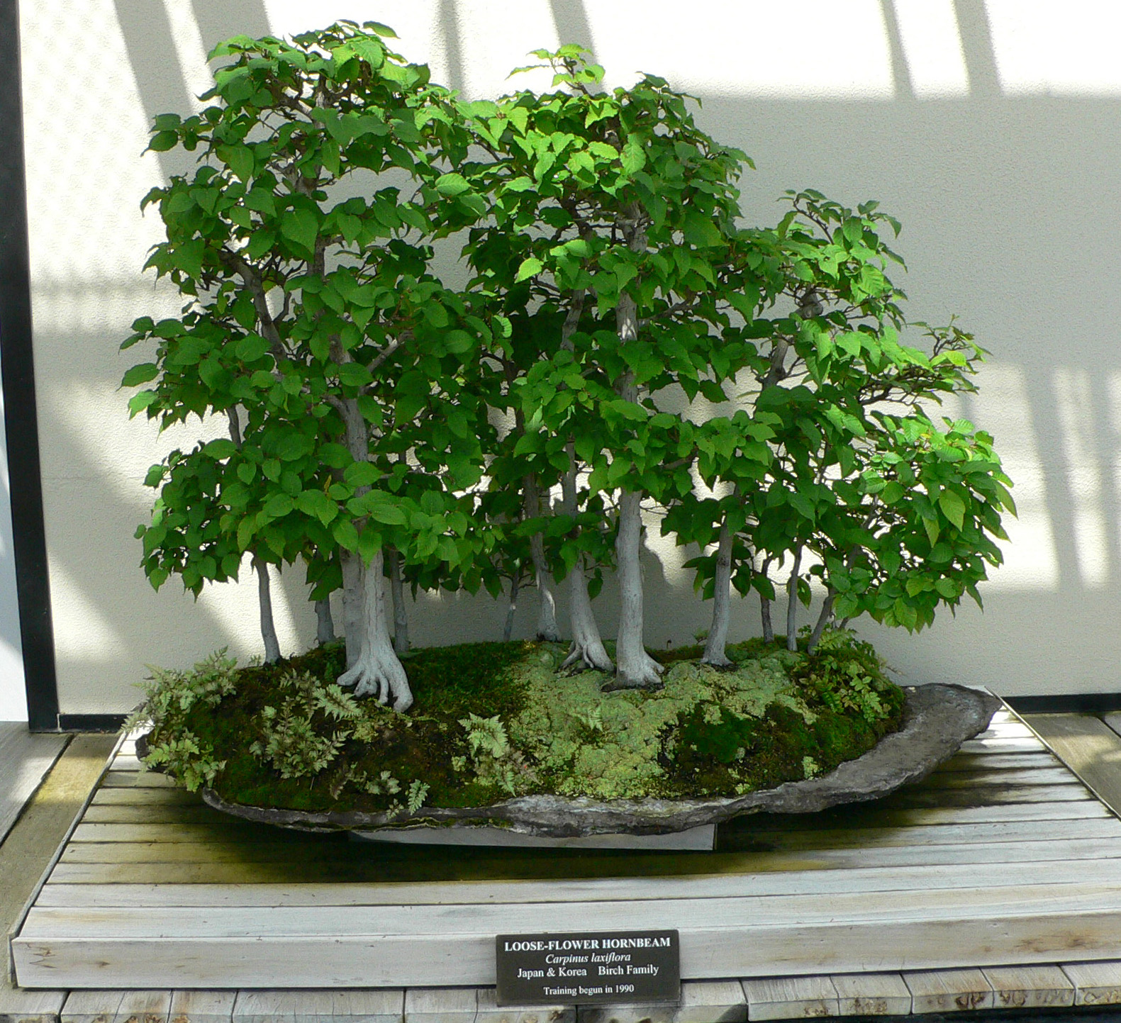 Pictures taken by myself at Longwood Gardens